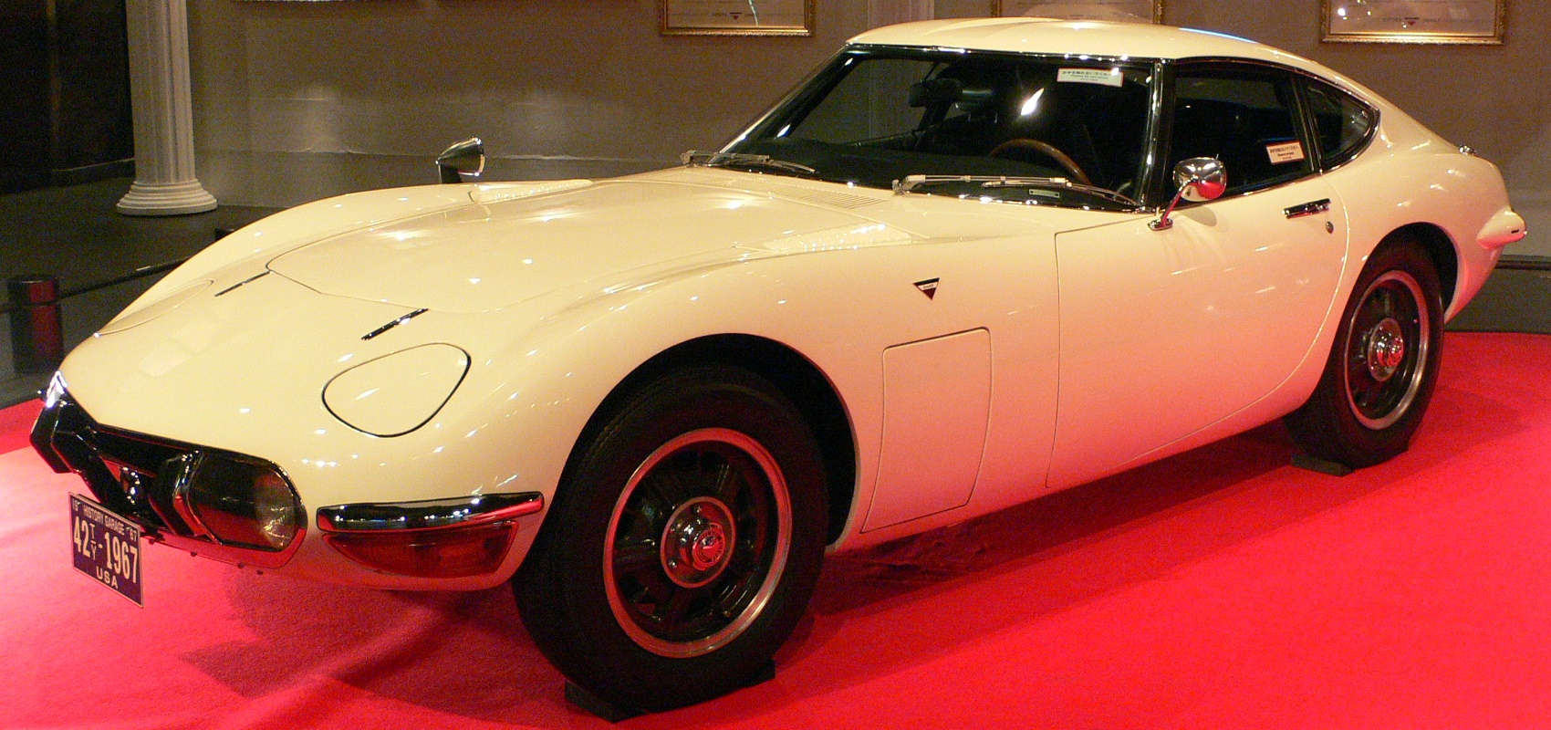 Toyota_2000GT(1969) photographed in MEGAWEB.